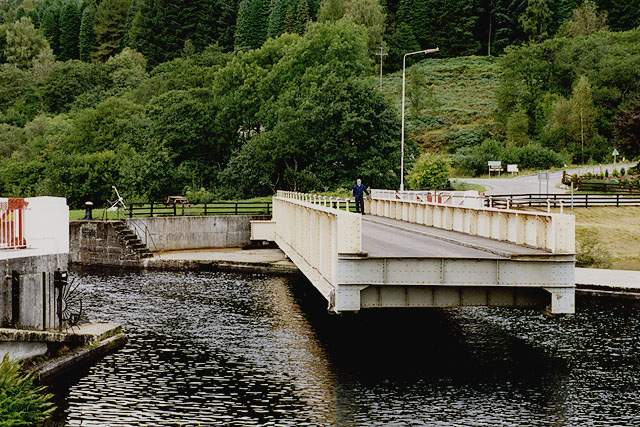 The Gairlochy swing bridge opening About to let a cruiser on the Caledonian Canal through.